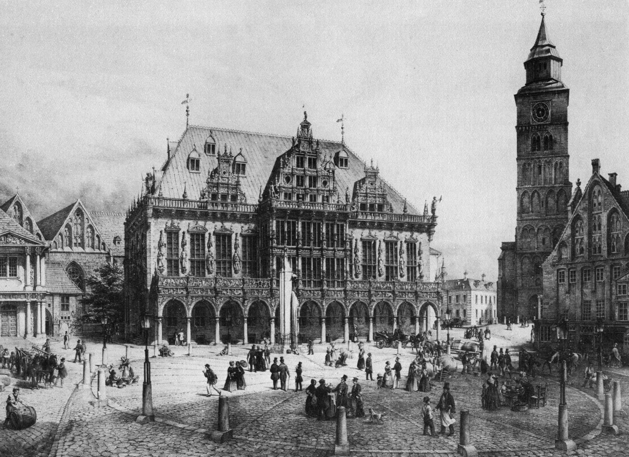 Market place of Bremen.